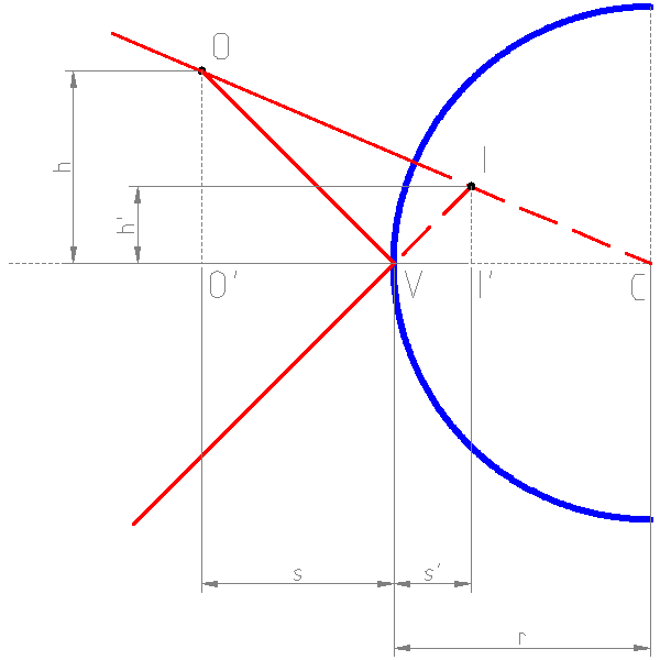 Reflection diagram in a convex spherical mirror